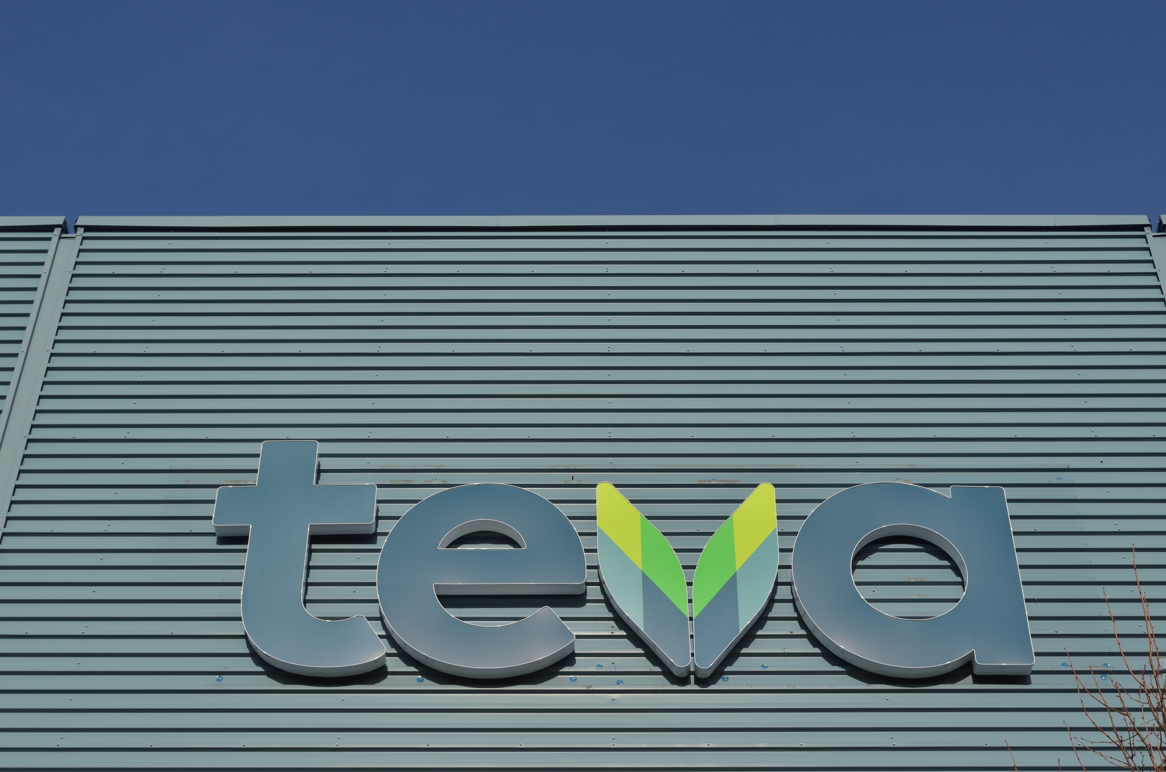 Teva Canada - Address: 575 Hood Road, markham, Ontario